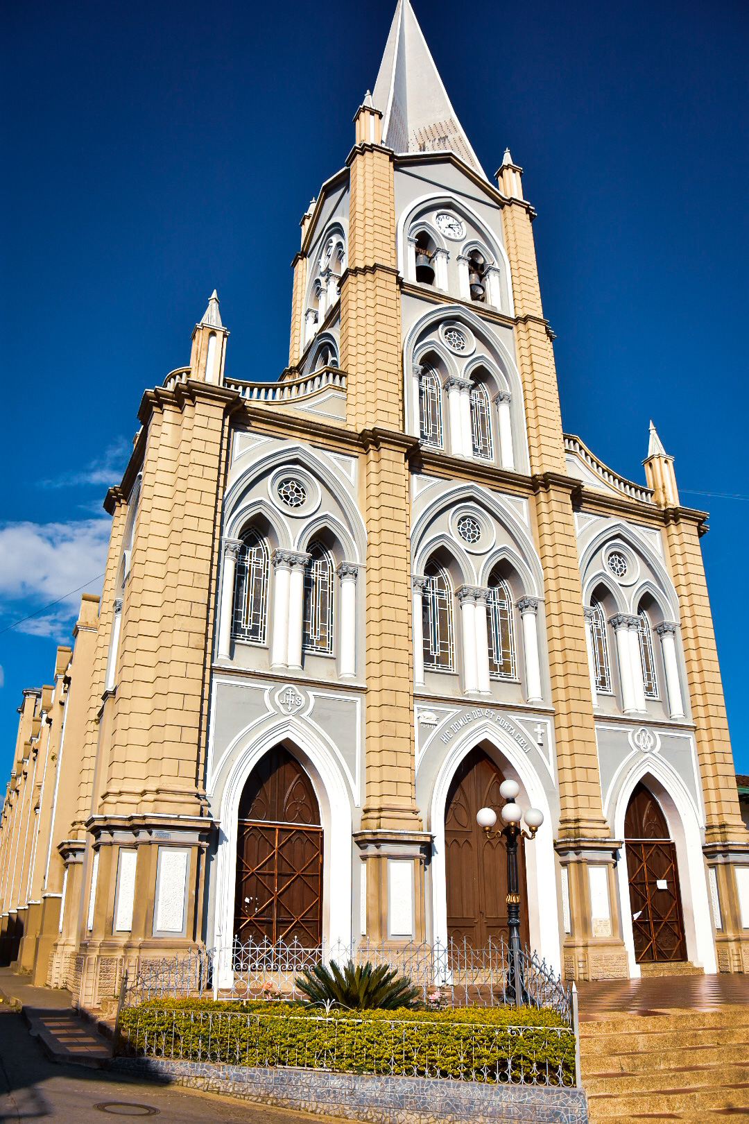 Panoramica de Caramanta